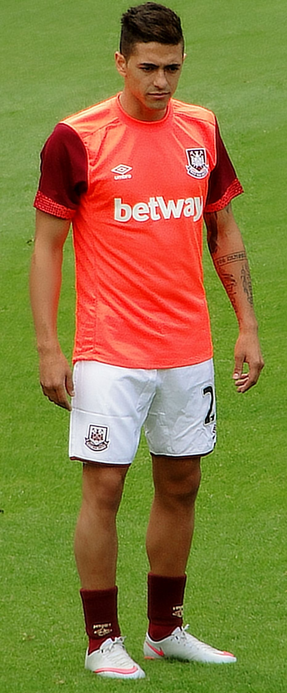 West Ham United player, Manuel Lanzini warming-up before their Premier League against Leicester City at the Boleyn Ground.